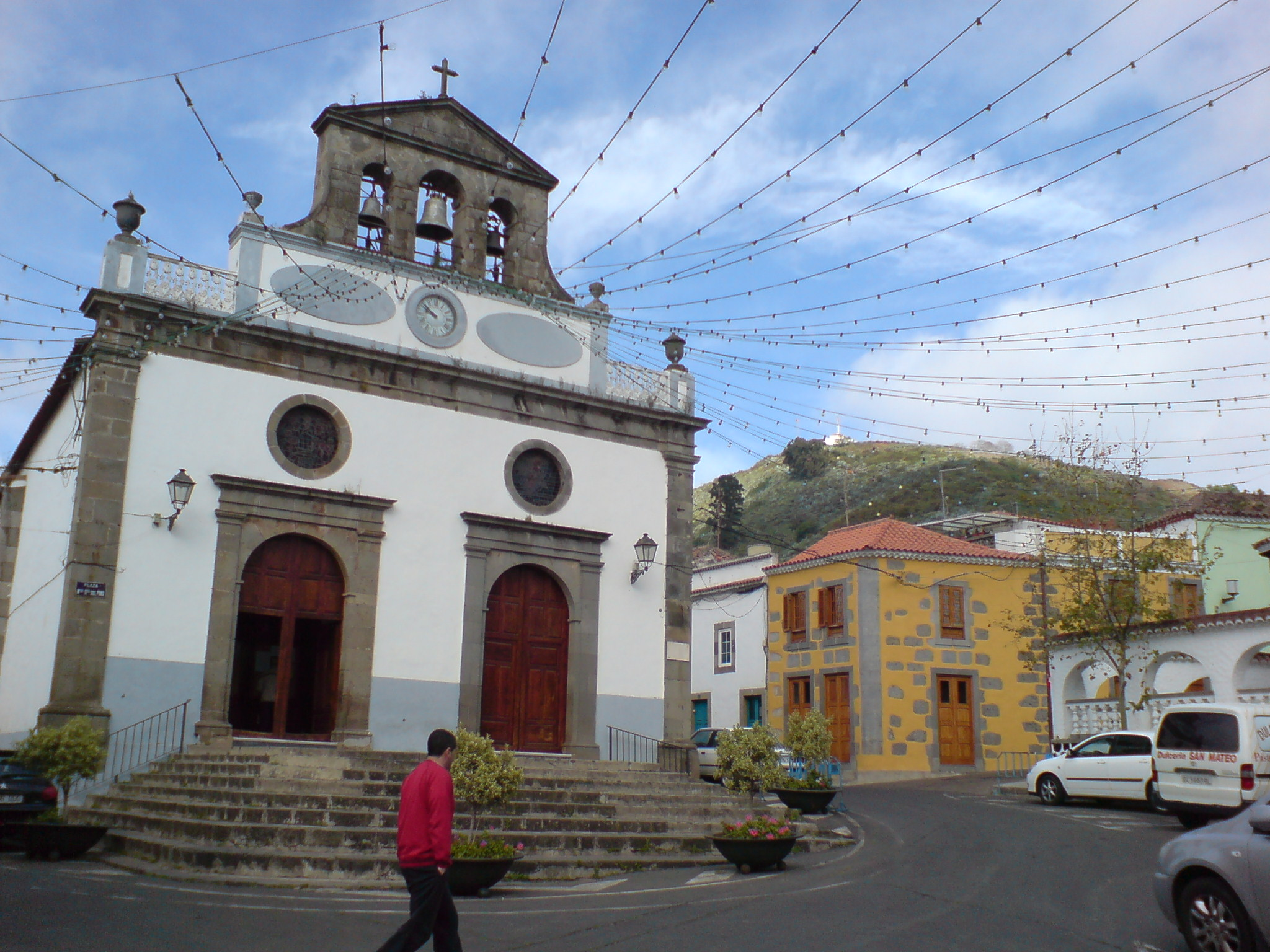 Church of Vega de San Mateo, Gran Canaria (Canary Islands, Spain).